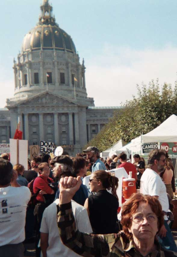 February 16, 2003: An elderly American woman raises her fist in opposition to her country's imminent invasion of Iraq. On February 15, an estimated 6,000,000 to 10,000,000 people in over 60 countries around the world took to the streets to show their opposition to what they considered a war of oppression.